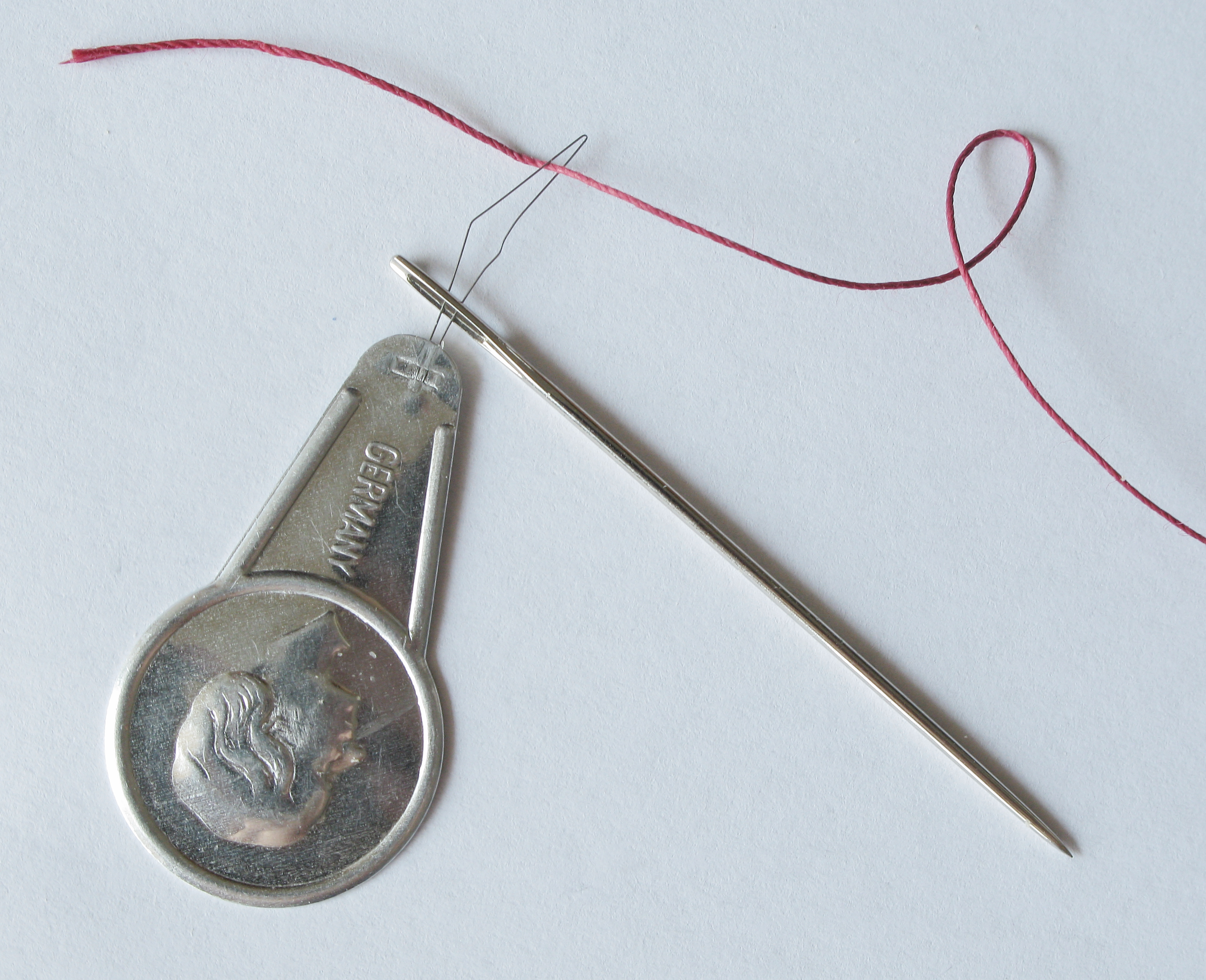 Image demonstrating how a needle threader makes threading a needle easier.